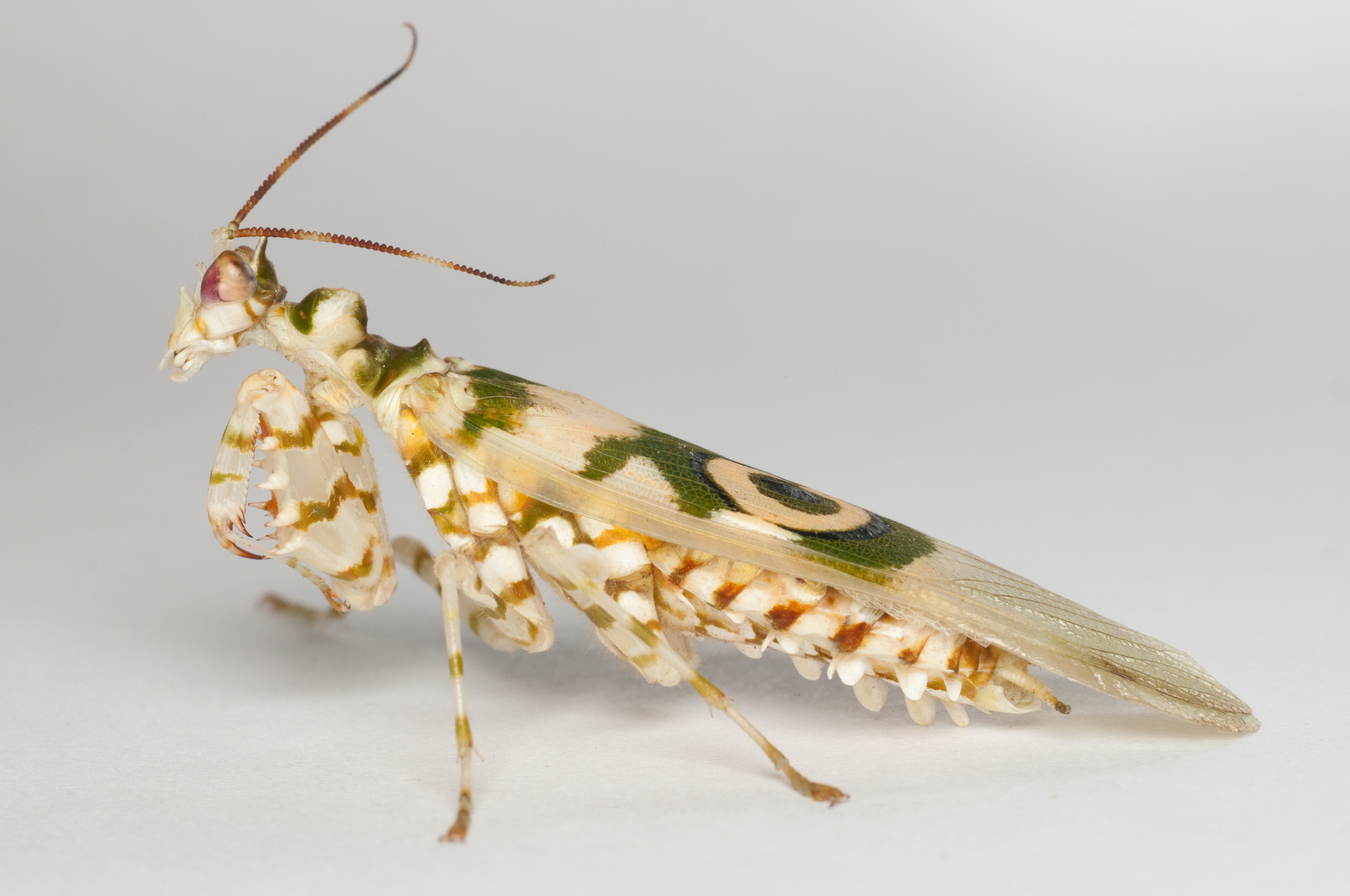 Spiny flower mantis, had lost right raptorial leg.